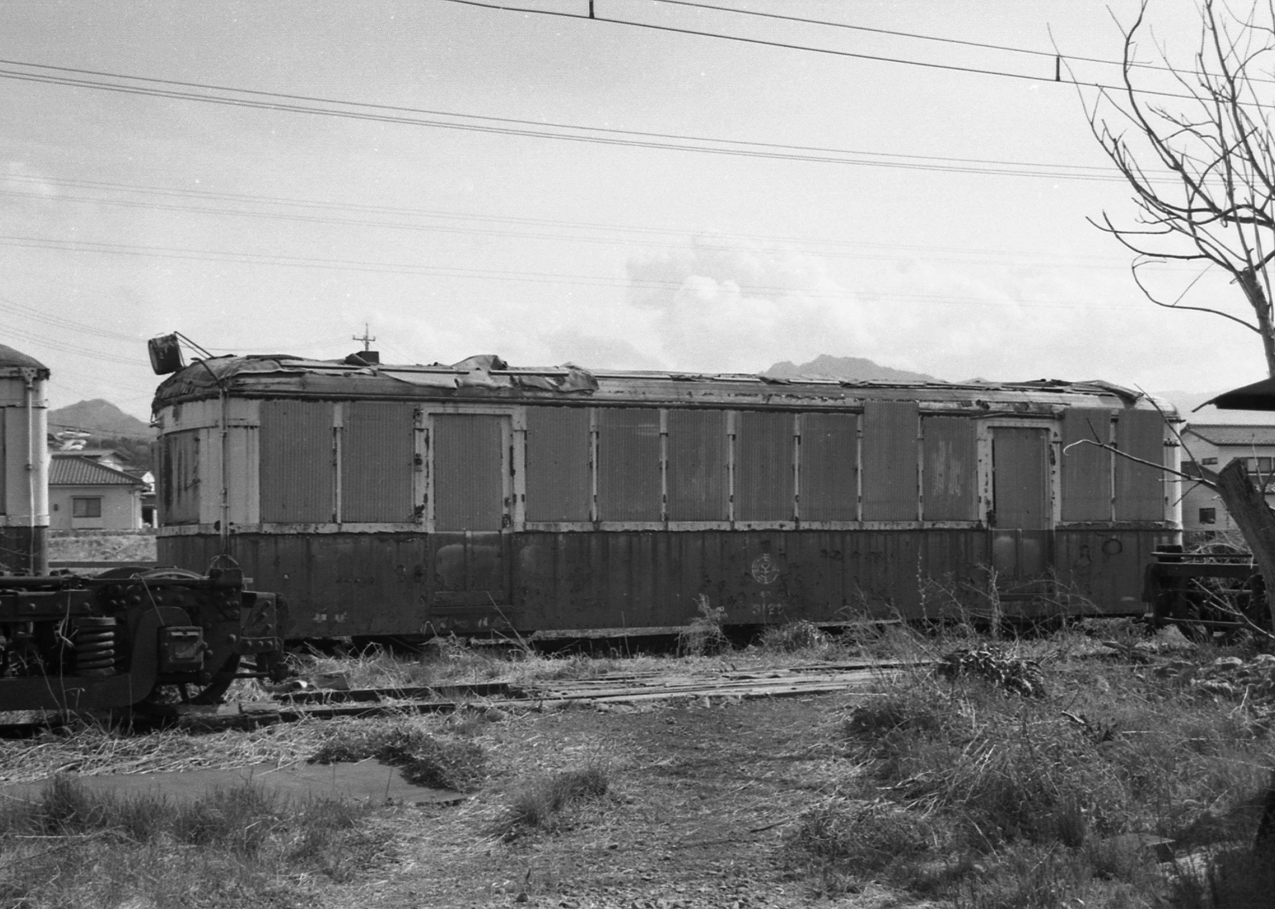 Ueda Koatsu 3121 after its withdrawal from operation.